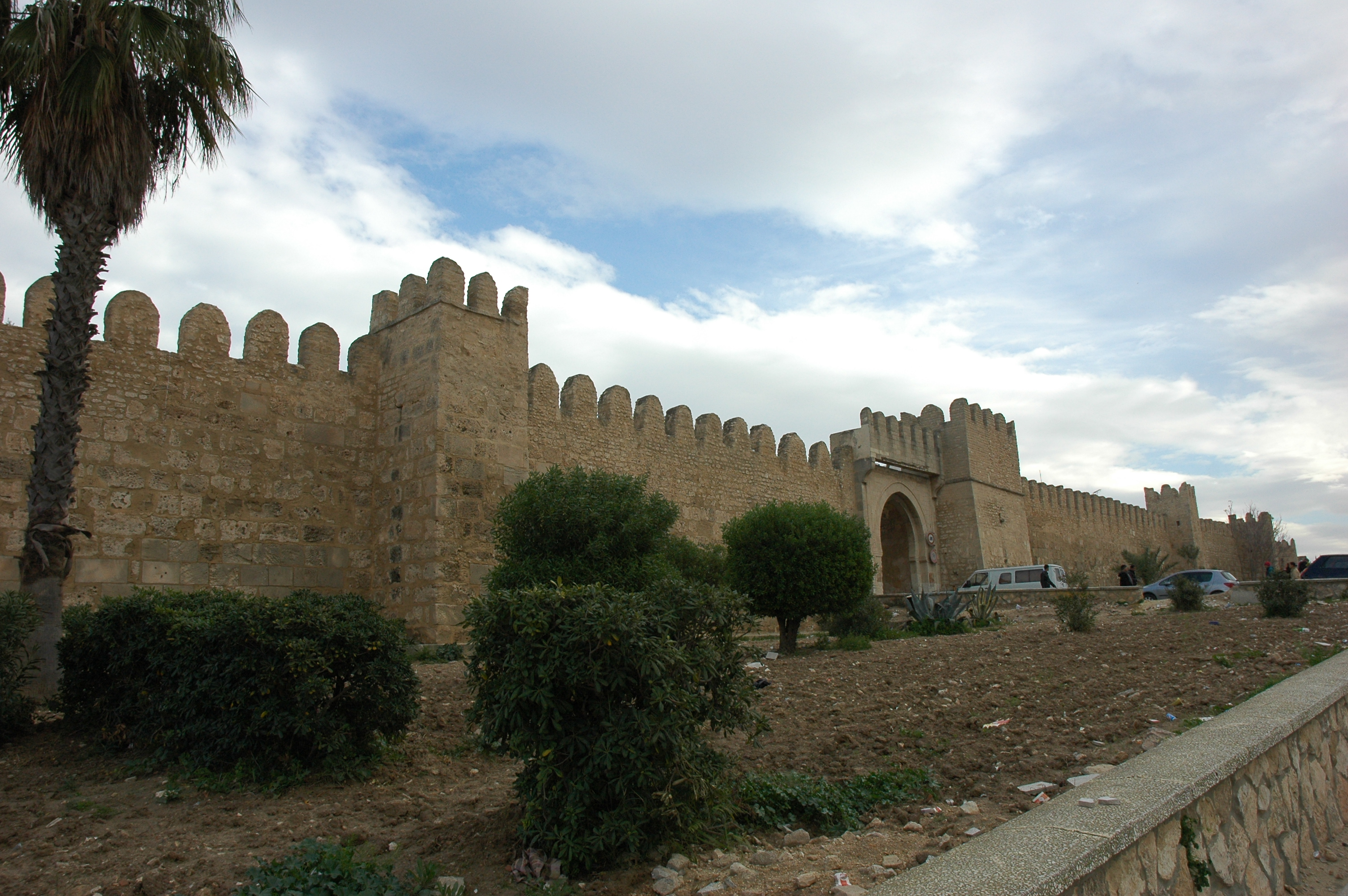 Sousse in Tunisia